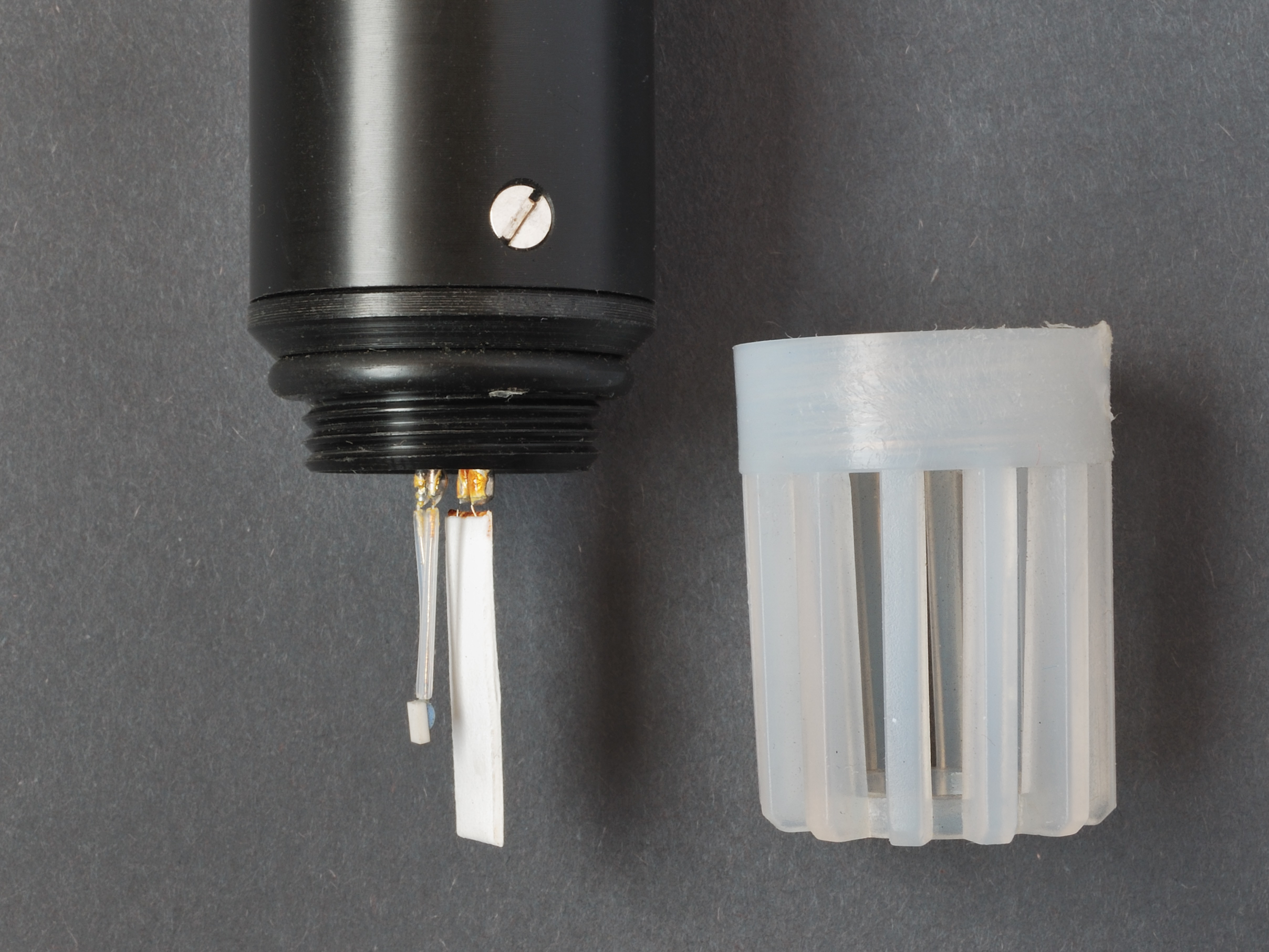 Probe of a combined temperature and humidity meter (rotronic hygroscope DV-2), with the unscrewed protection cap. The humidity is measured by means of a capacitive sensor and the temperature by means of a silicon diode. The diameter of the slab is 25 mm. The capacitive sensor (the long white strip) has an area of 5 mm x 20 mm.